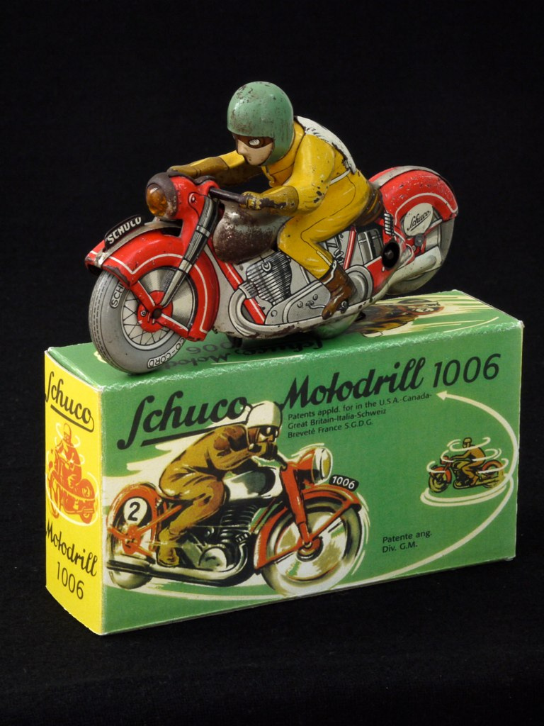 Schuco Motodrill, US-zone Germany 1950's